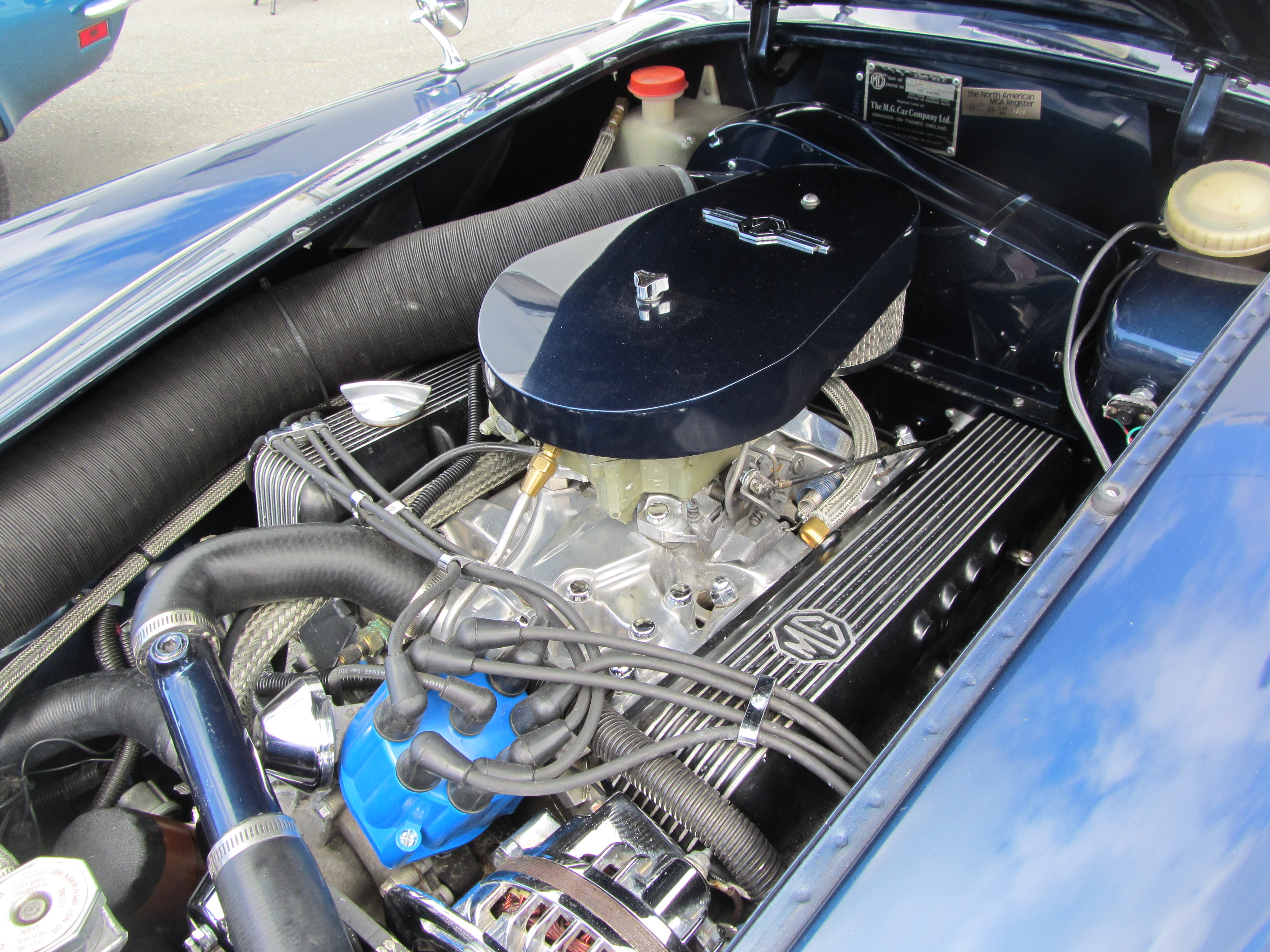 Sign says this is a Buick engine, with MG valve covers. It's the same basic engine as was used in many Rover cars and trucks and the MGB V-8 models.